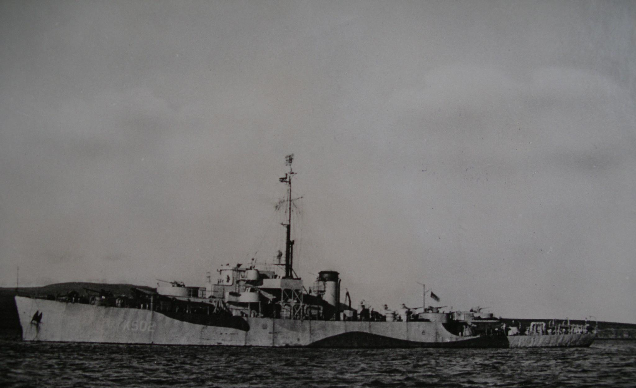 HMS Ascension (K502), an American-made frigate